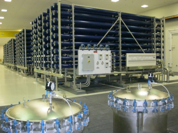 I, Twhair, took this picture while on a tour of the North Cape Coral RO facility in 2006 while serving as a city councilmember.